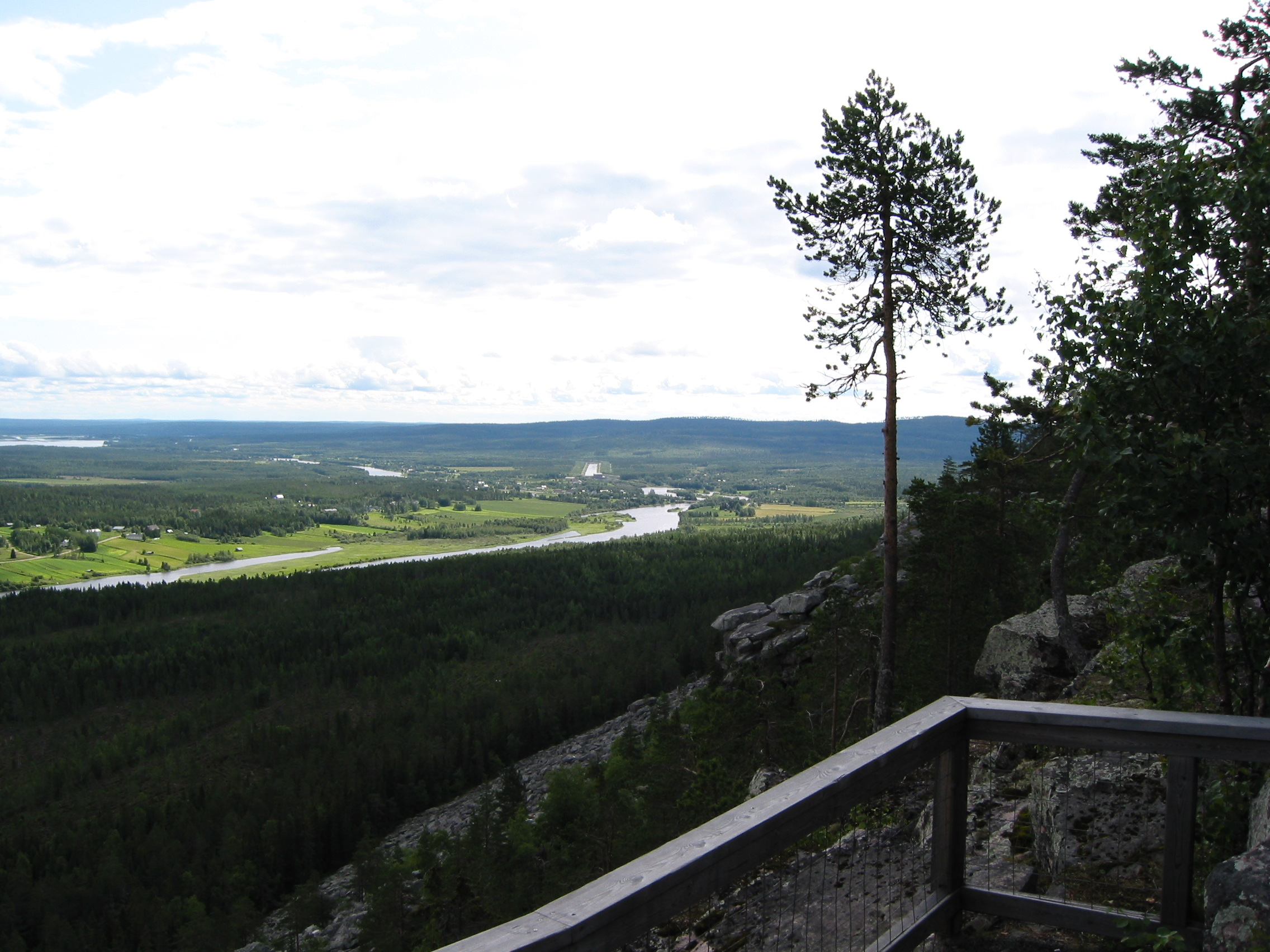 View from Aavasaksa hill in Ylitornio, Finland